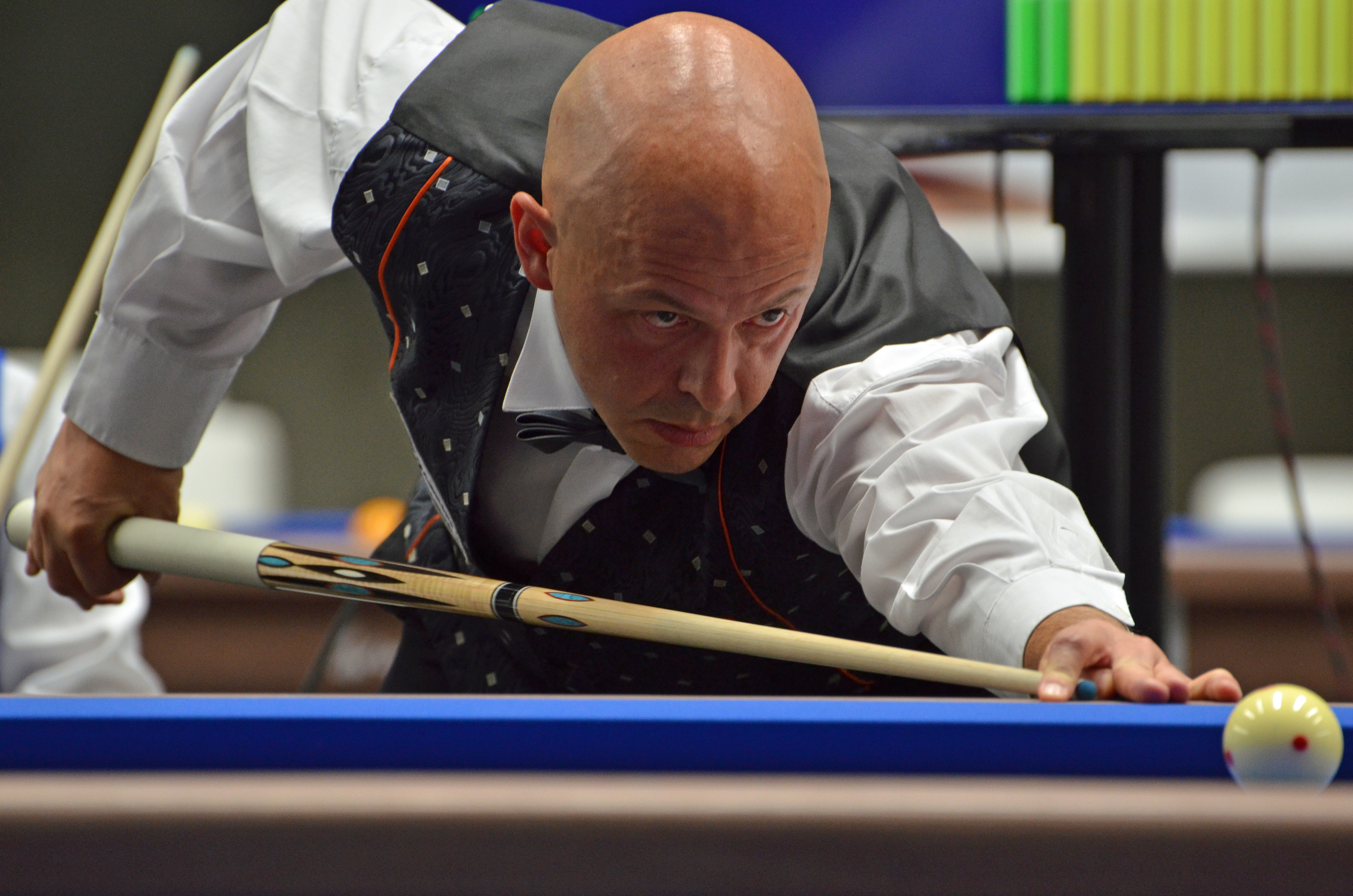 see file name